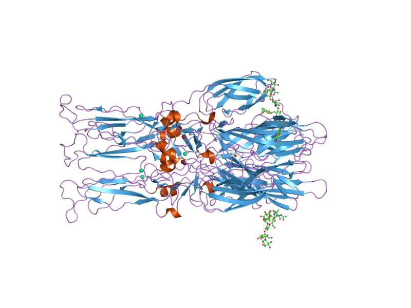 Cartoon representation of the molecular structure of protein registered with 1rer code.